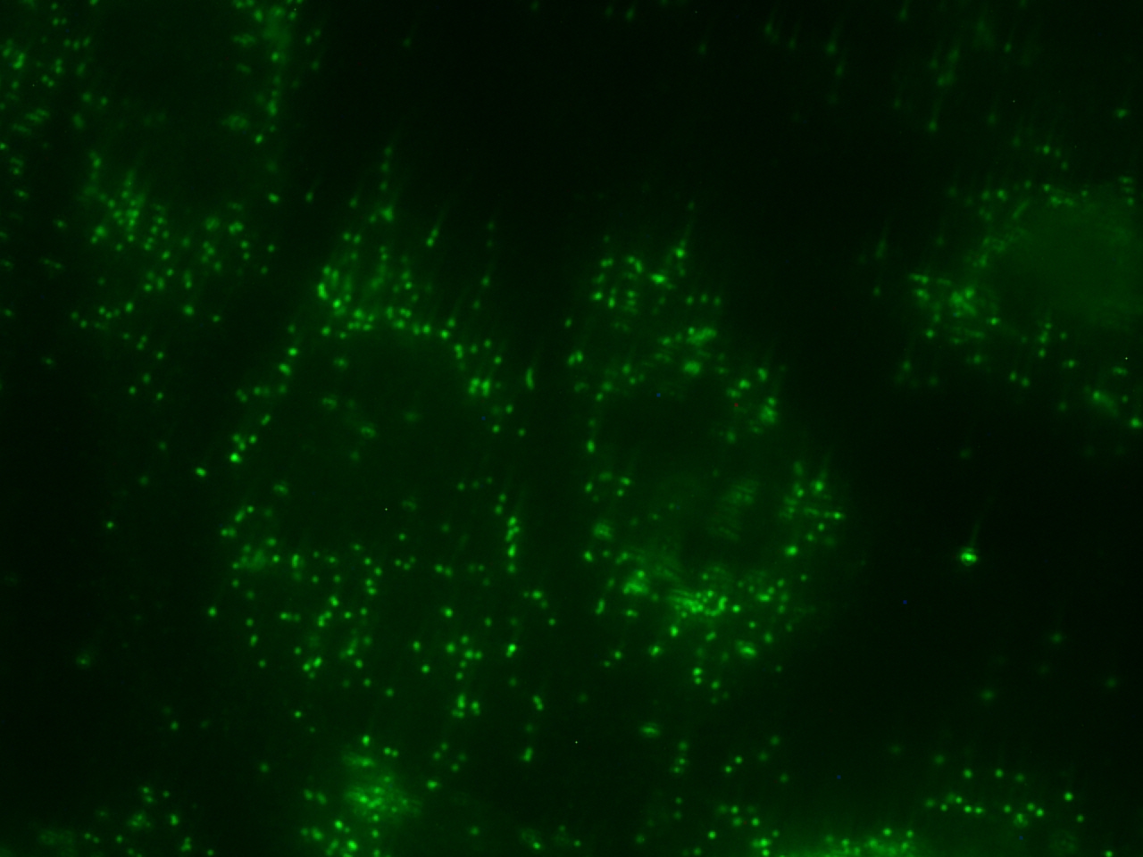 Peroxisome in rat neonatal cardiomyocyte staining The SelectFX Alexa Fluor 488 Peroxisome Labeling Kit directed against peroxisomal membrane protein 70 (PMP 70)